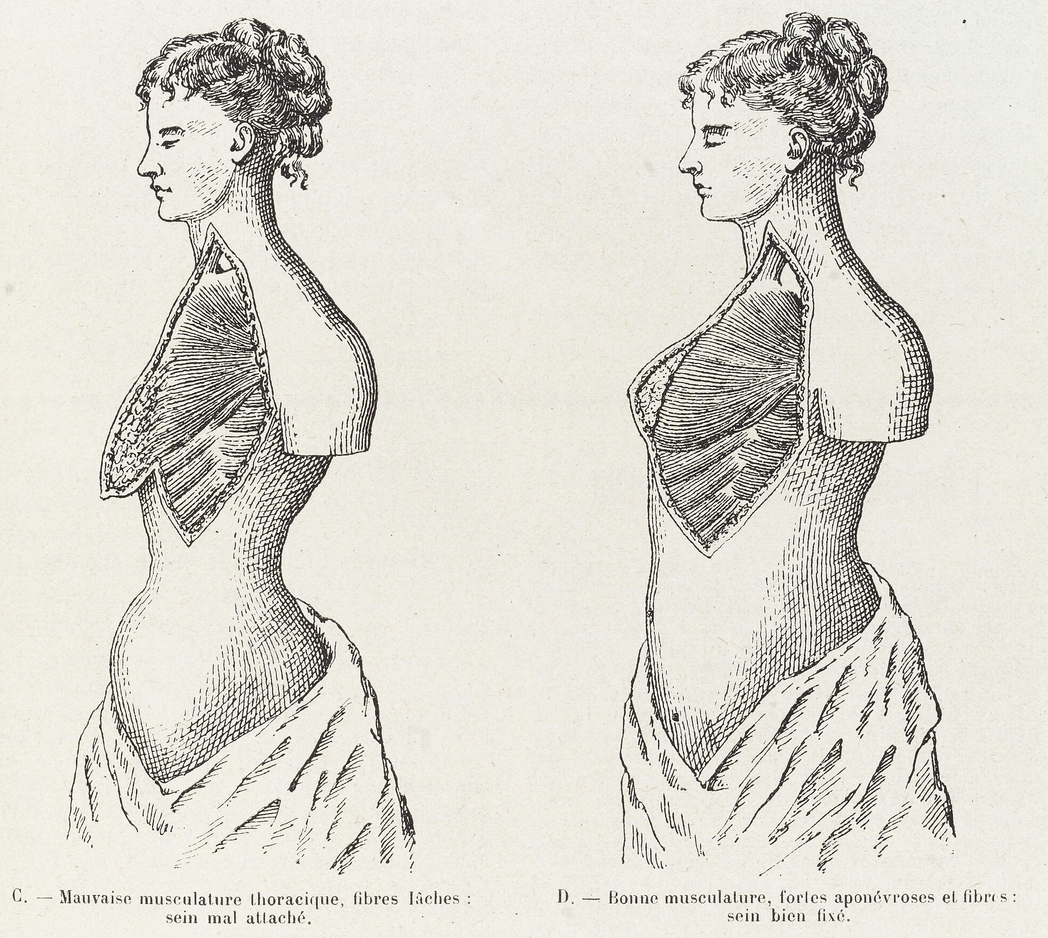 2 illustrations indicating the importance of muscle development to ensure a pert chest. 2 female forms are depicted, one with weak musculature and thus sagging breasts, the other with good musculature and therefore a well-formed chest. General Collections Keywords: Body; Aesthetics; Beauty; Musculature; Physique; Ideal; Eugenics; Chest; Strength; Breast; Fitness; Thorax; Posture